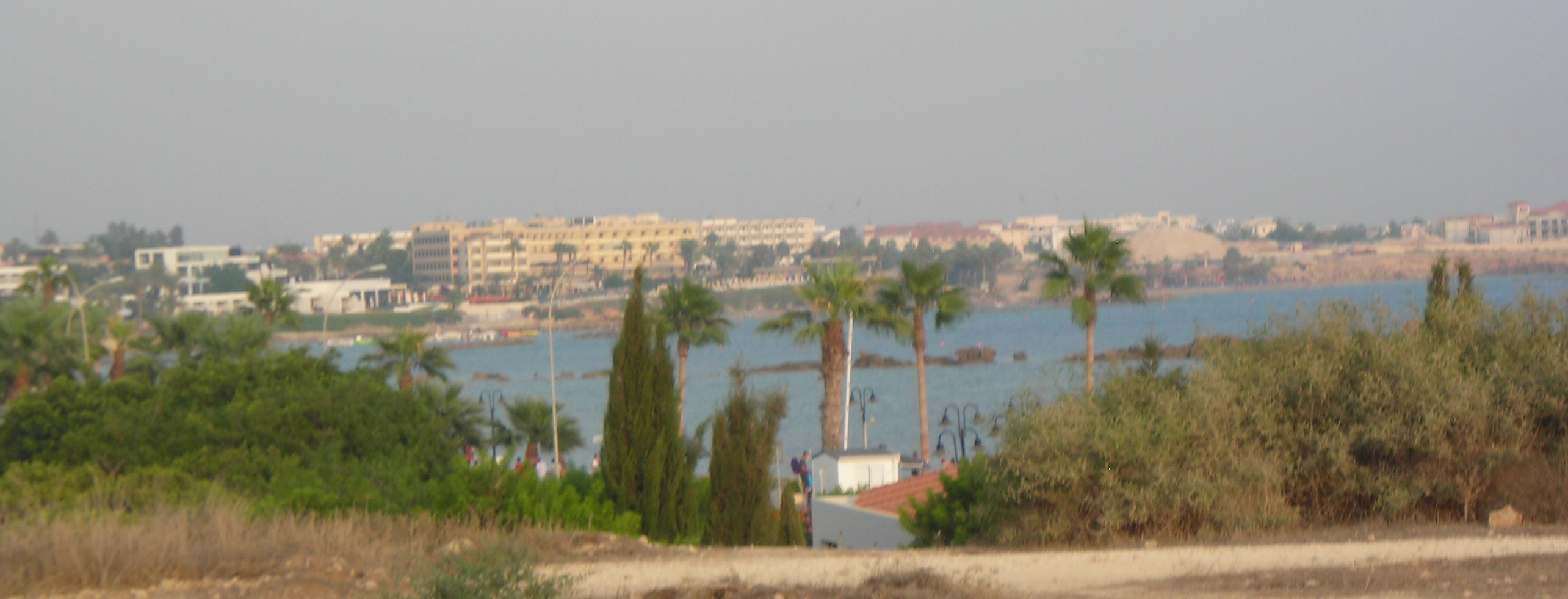 Skyline of the City of Paphos, Cyprus, taken from the Tombs of Kings.